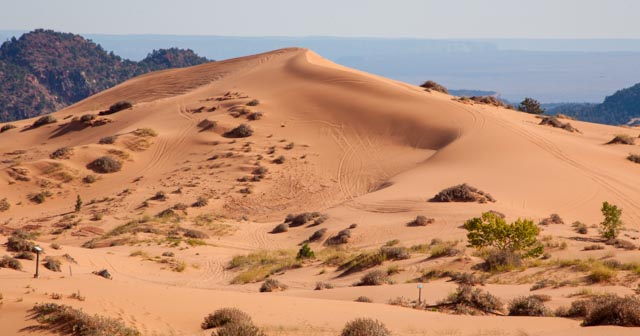 On the way from the east entrance of Zion National Park to Kanab, Utah, I decided to check out this little gem of a state park. Great place to visit and worth the detour - the only problem was the noise and sand kicked up by all the ATVs running up and down the dunes, but they looked like they were having a lot of fun and I wish I could have joined them! I took these photos in October 2012.